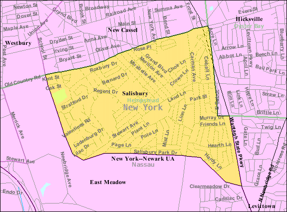 U.S. Census 2000 reference map for Salisbury, New York